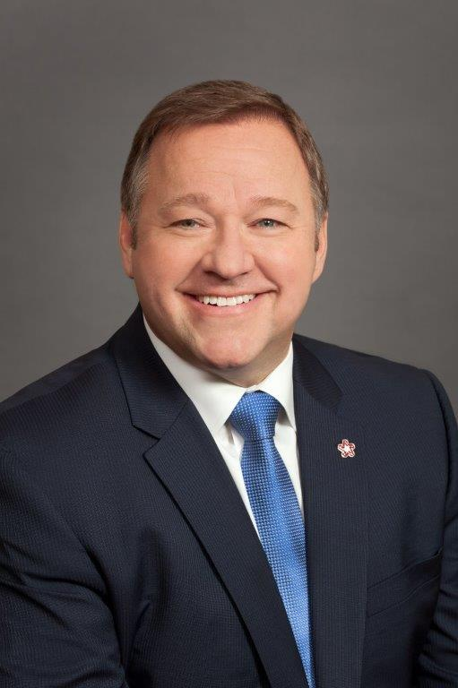 Don Slager Portrait